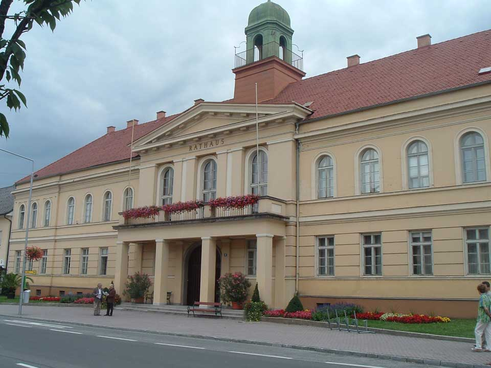 The City Hall in Oberwart, Burgenland, Austria